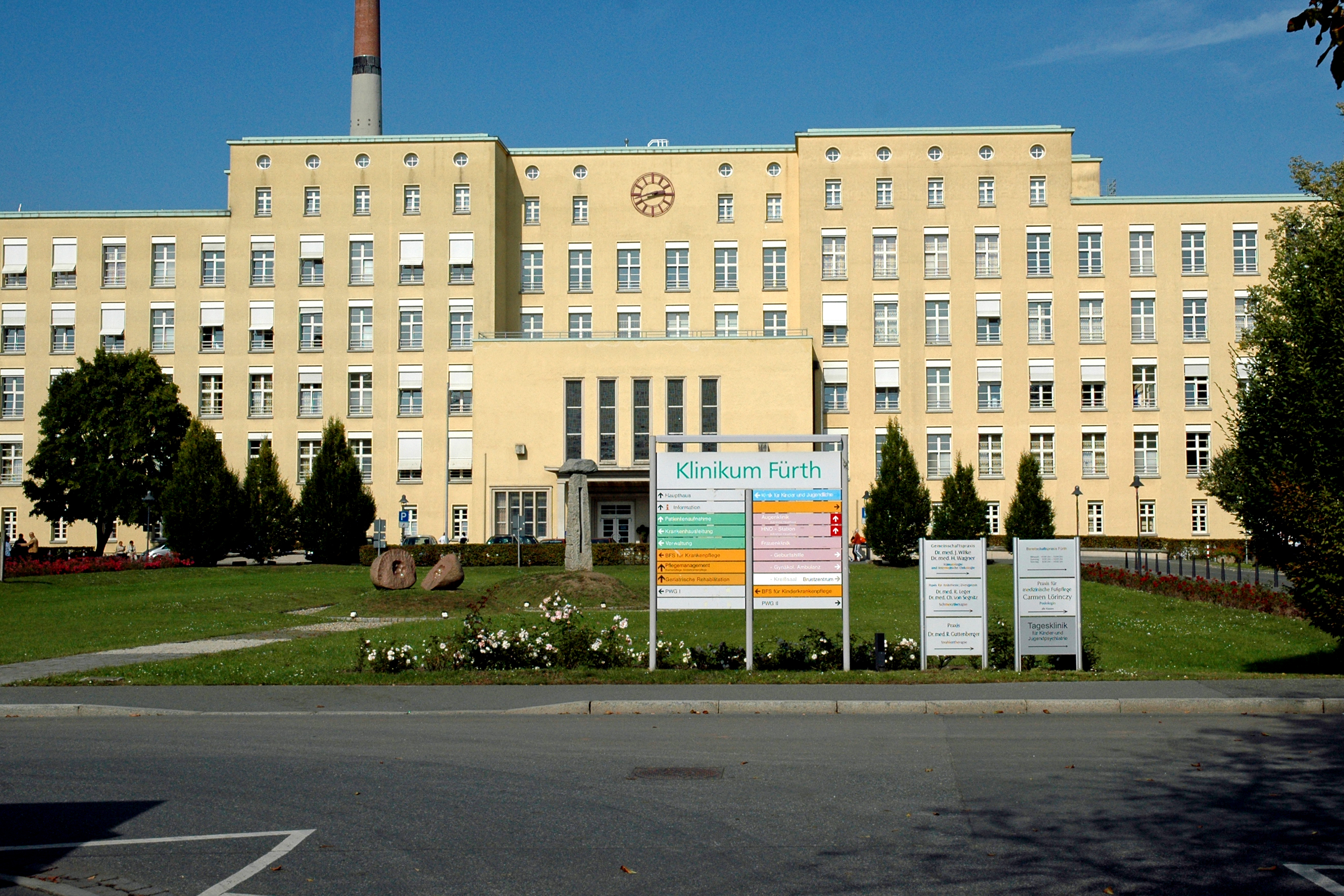 Front view of the hospital-building in Fuerth/Bavaria, Germany, "Klinikum Fuerth"